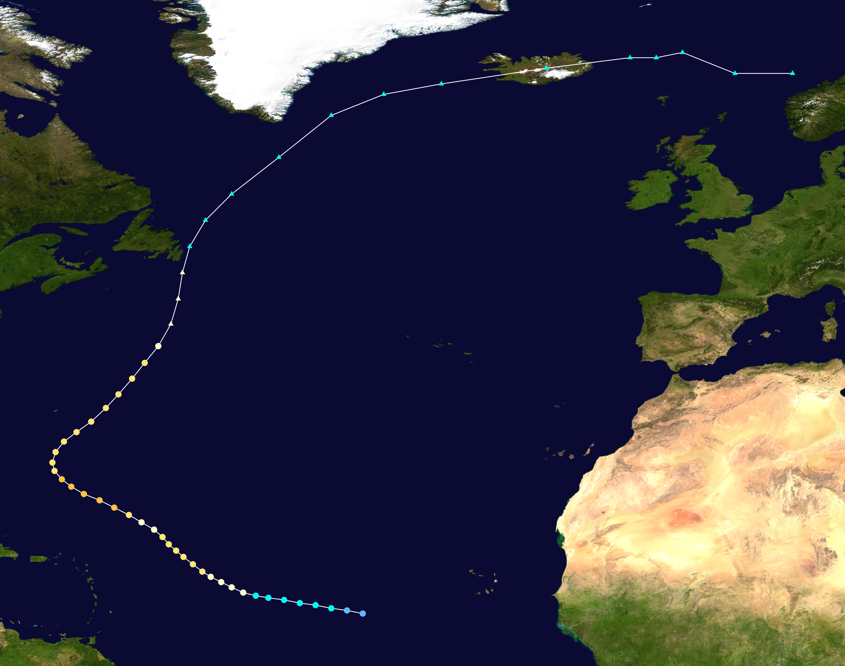 Hurricane Debbie (1969) track. Uses the color scheme from the Saffir-Simpson Hurricane Scale.